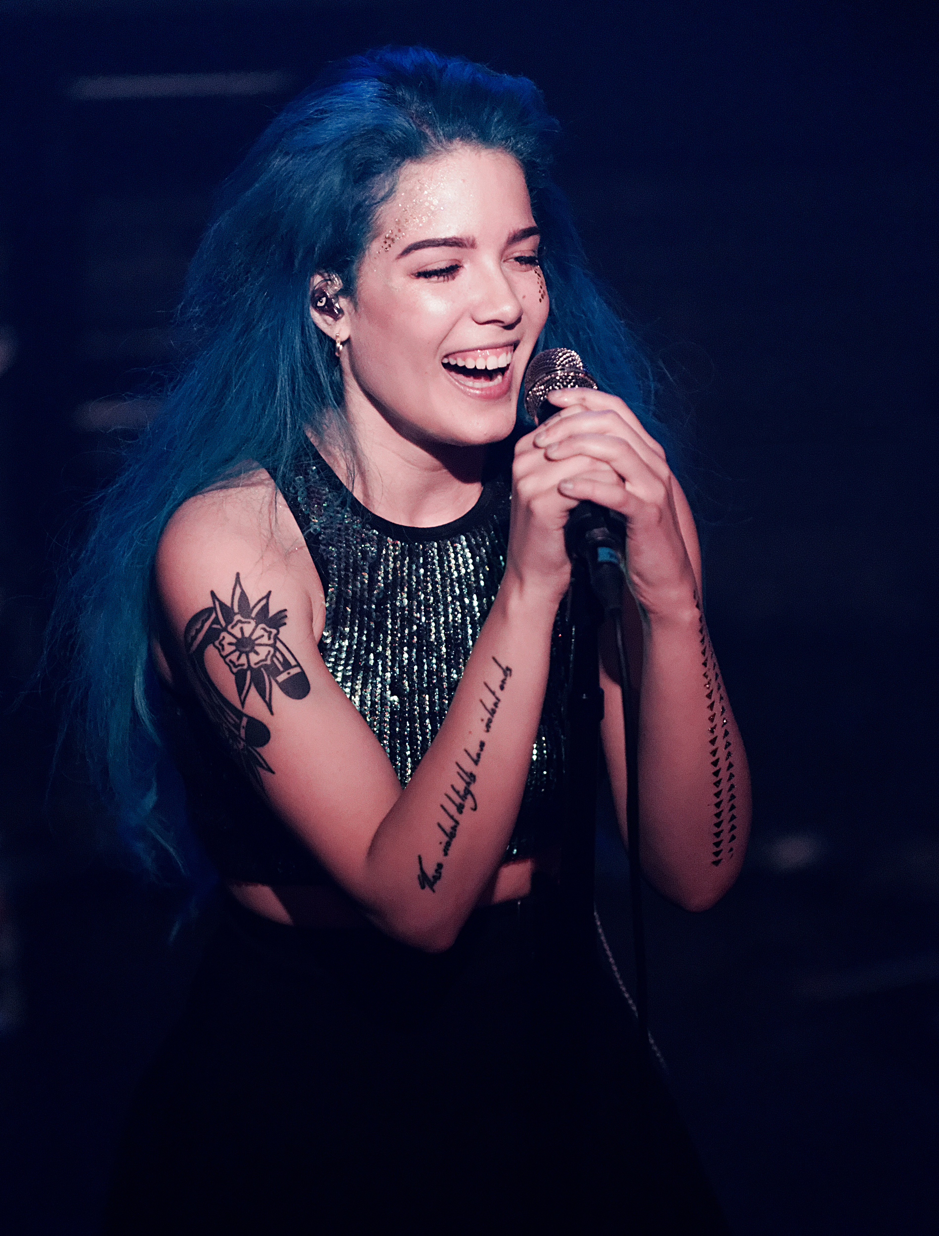 Halsey performing live at The Troubadour in Los Angeles California on Wednesday March 11th, 2015. This was the first official stop on Halsey's first-ever headlining tour.